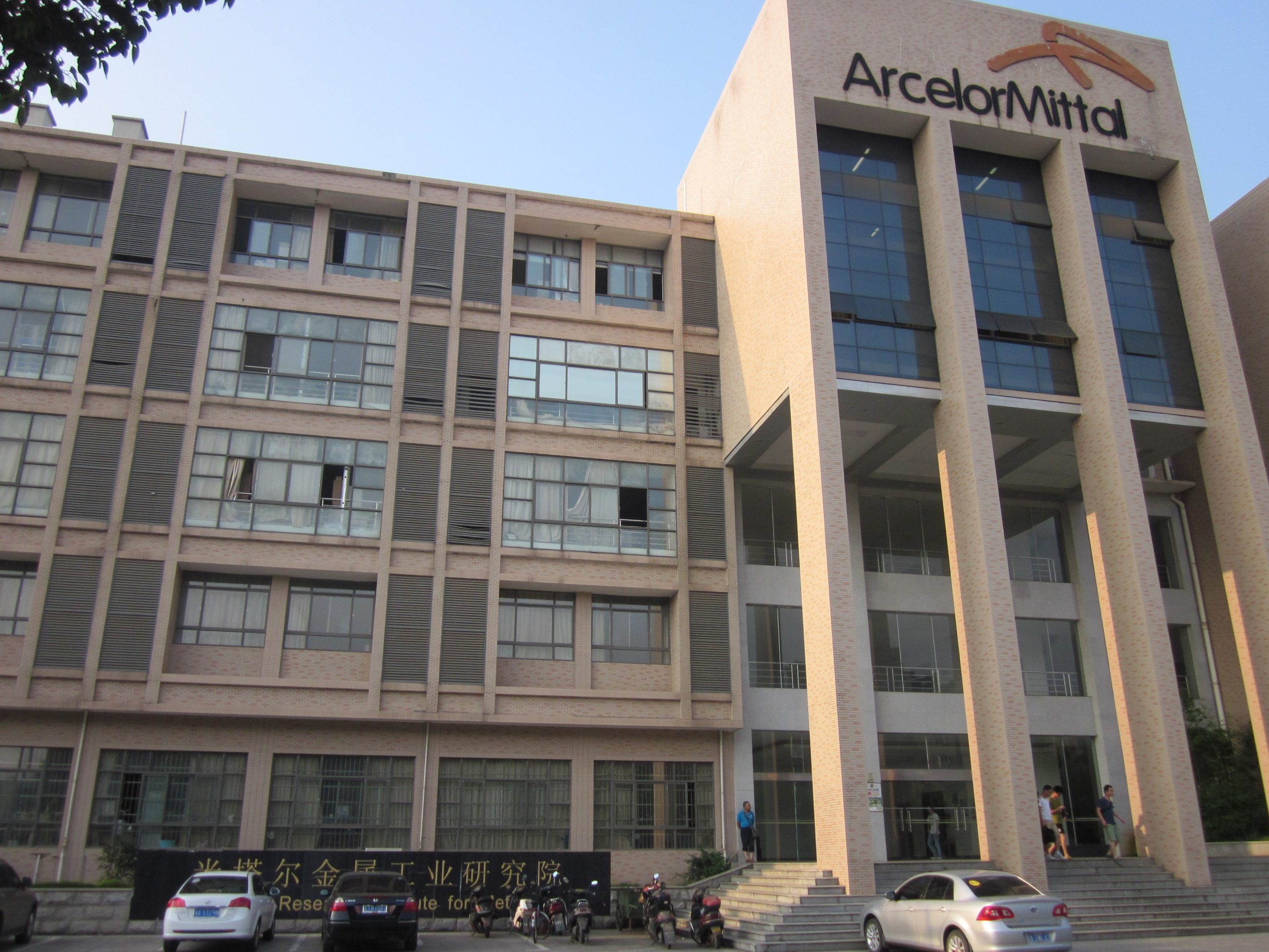 Central South University (CSU